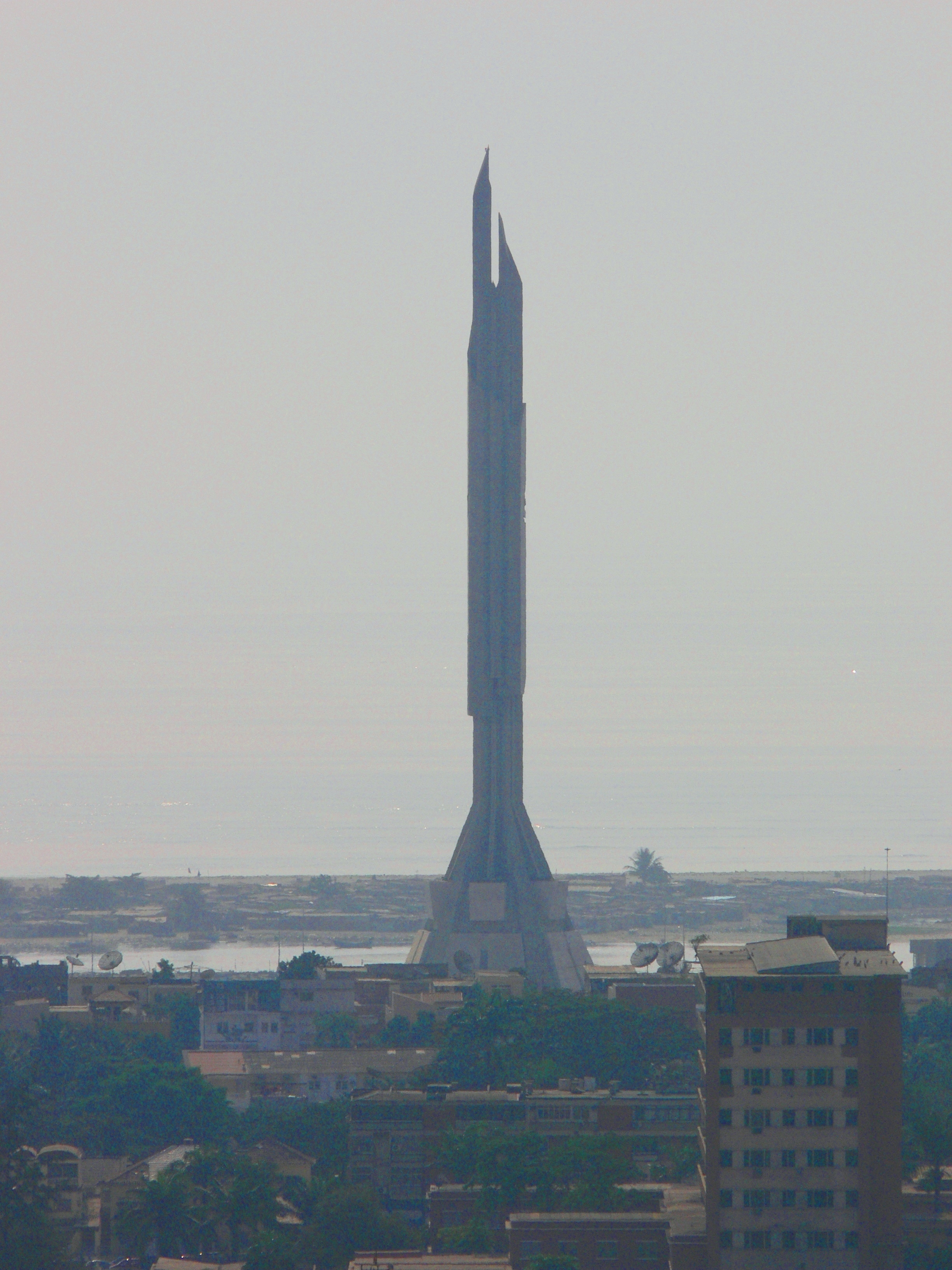 View from Hotel Alvalade in Luanda, Angola